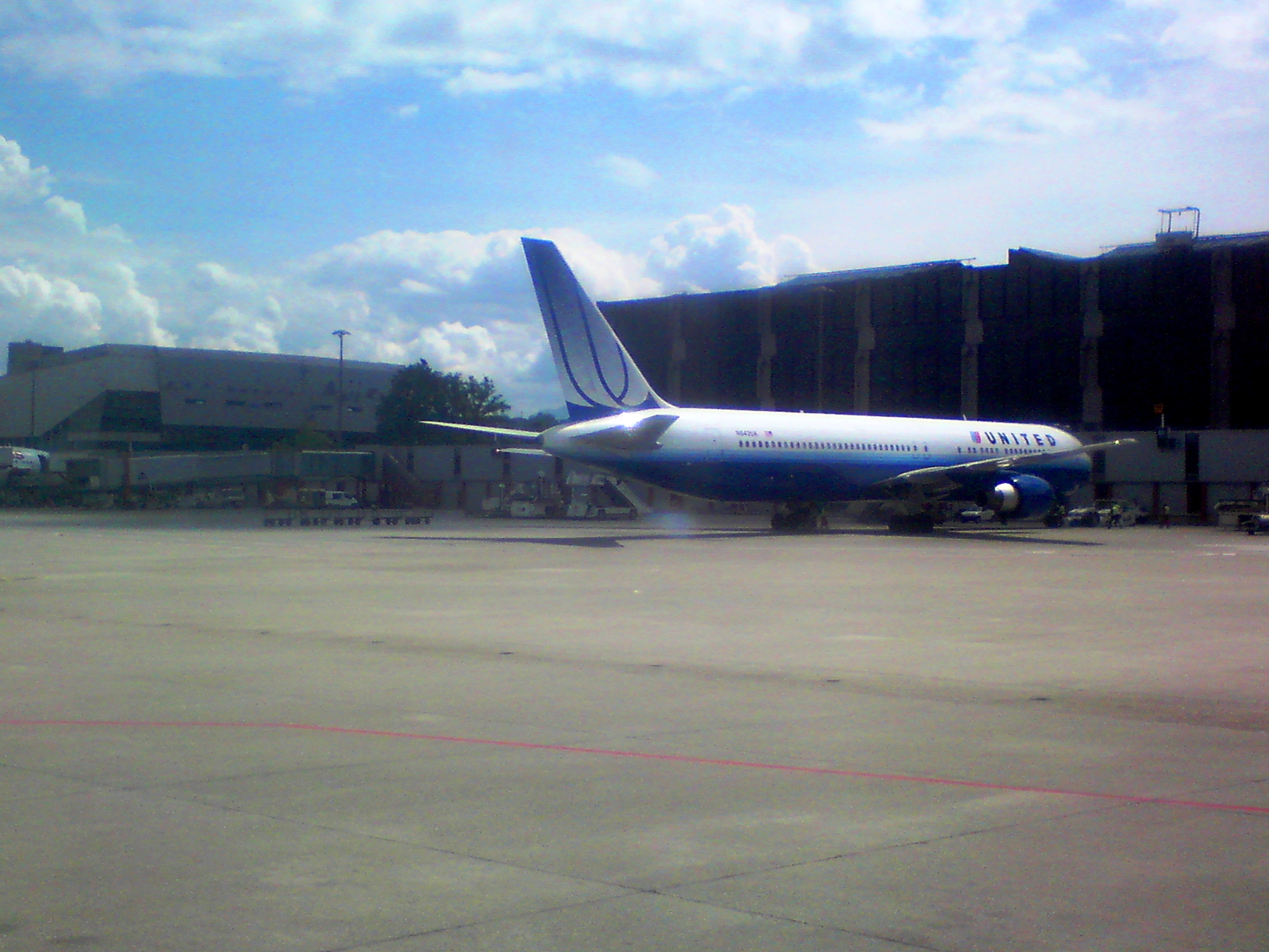 UA975 Ready for Departure from GVA